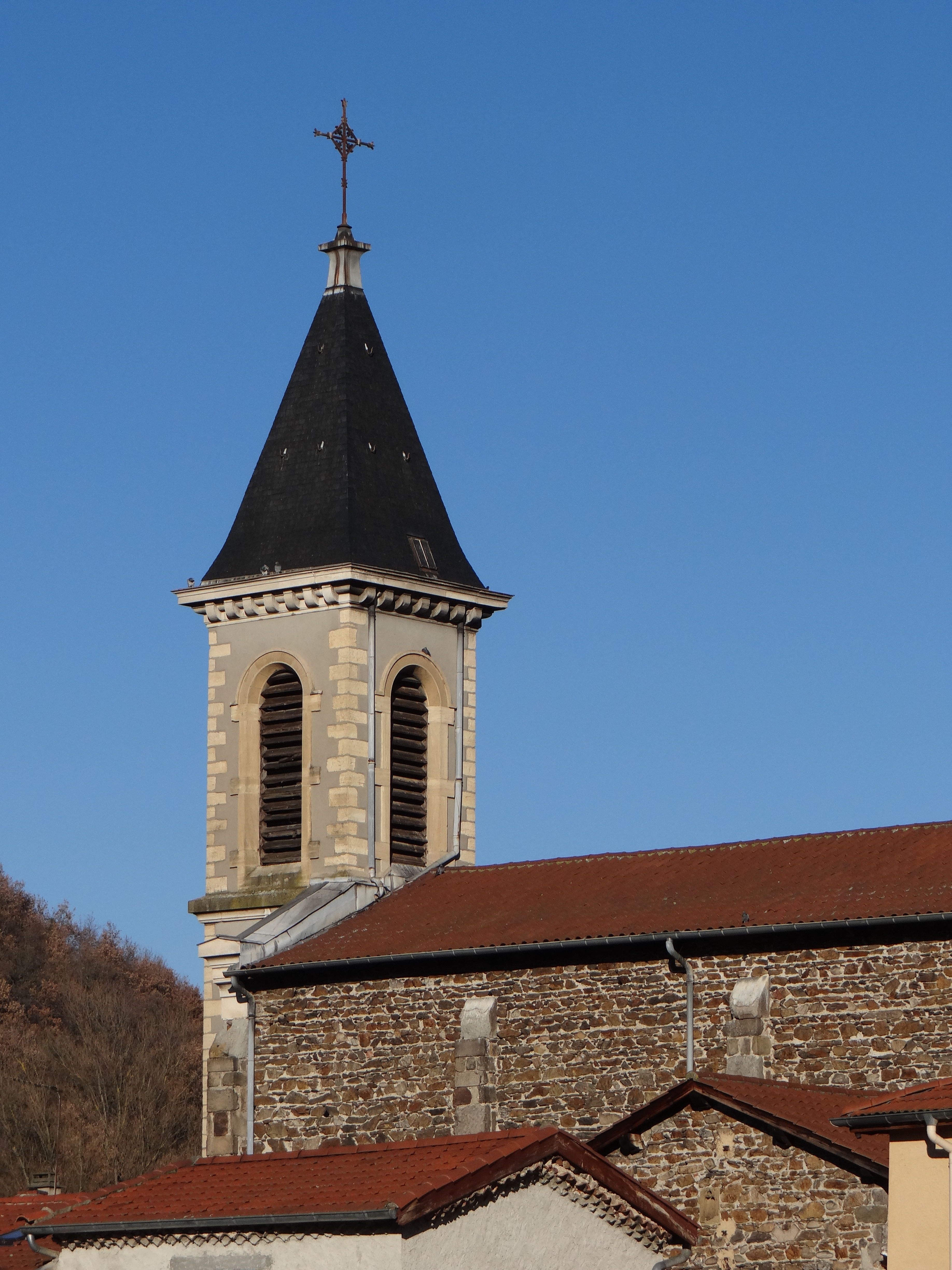 Steeple of the church of Saint-Romain-en-Gier, Rhône, France